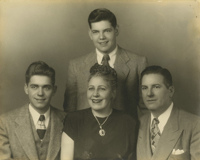 Photograph of Robert B. Silvers (standing), with brother Edwin (left), mother Rose and father James (right) Other information This is a family photo made as a "work for hire" that belonged to my father, Edwin Silvers, one of the sitters in the portrait. My father gave this photograph to me. He died in 2000, and I am his heir. I hereby license it pursuant to the Creative Commons Attribution 4.0 International license.